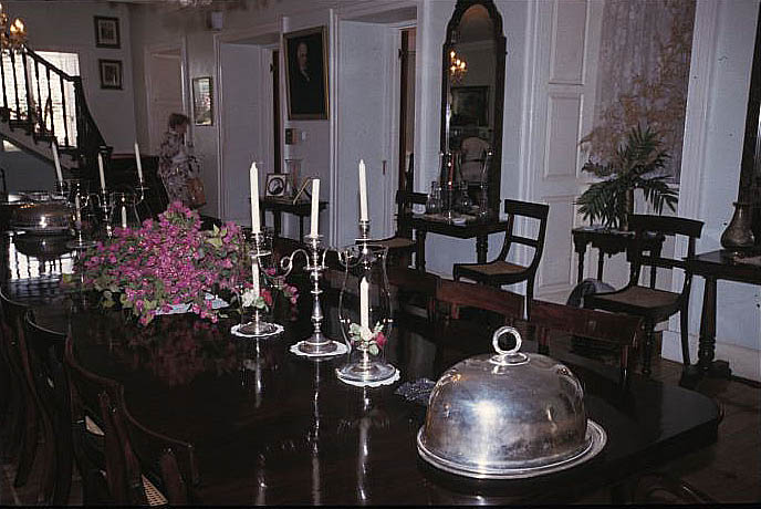 Noteworth is the Mahogany table